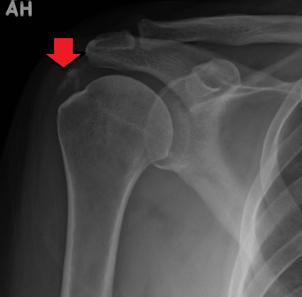 Calcific tendonitis